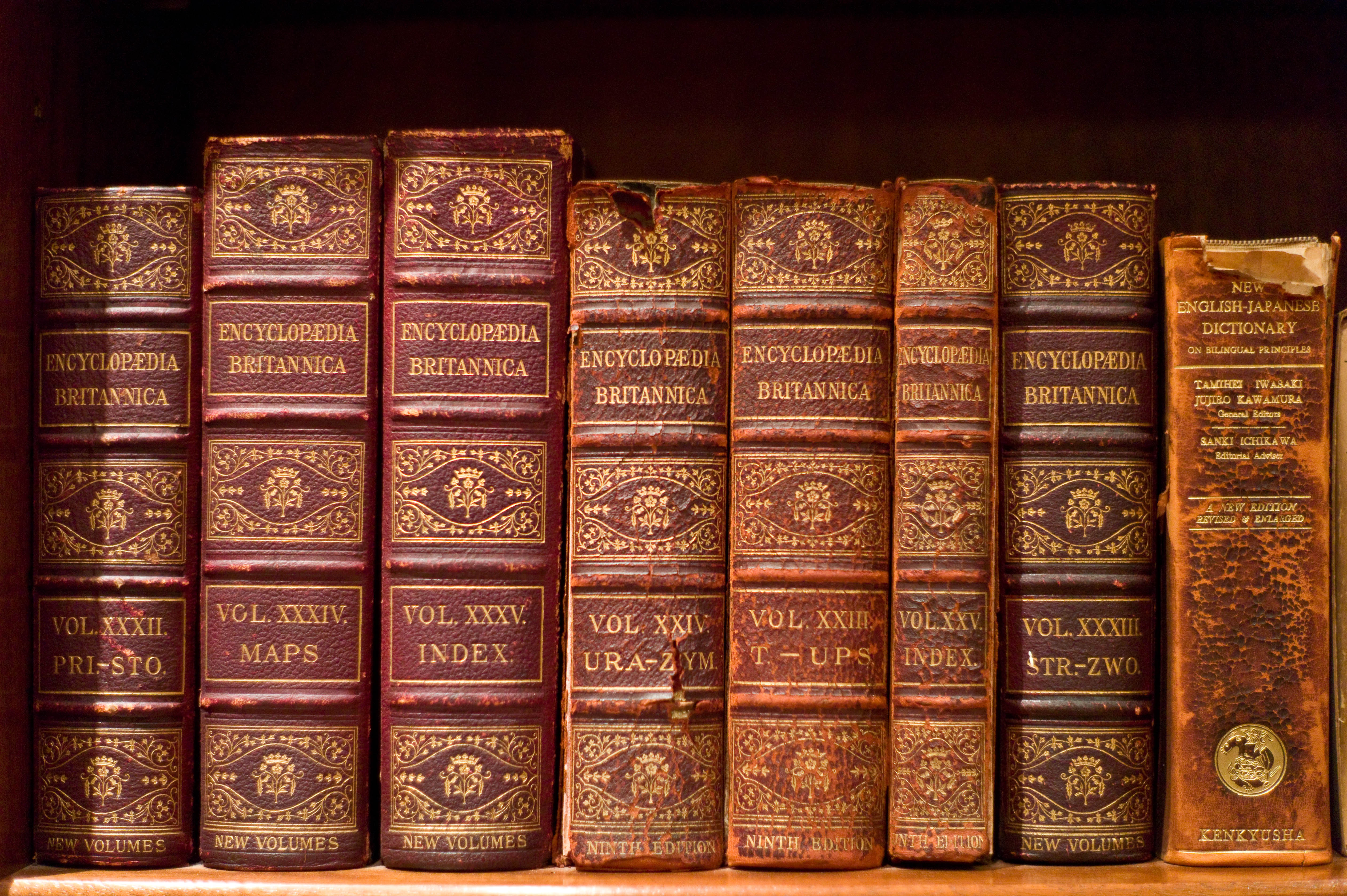 Volumes of the Encyclopædia Britannica (9th edition, 1875–1889) on a shelf. On the right side is a copy of the New English–Japanese Dictionary on Bilingual Principles.